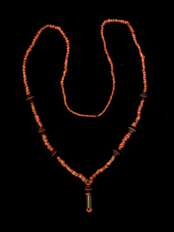 Mutisalah necklace from Timor in its original stringing. Composed of a combination of coil beads, known as Mutiraja and rod neads believed to be made prior to 1600 AD. The copper beads are more recent.